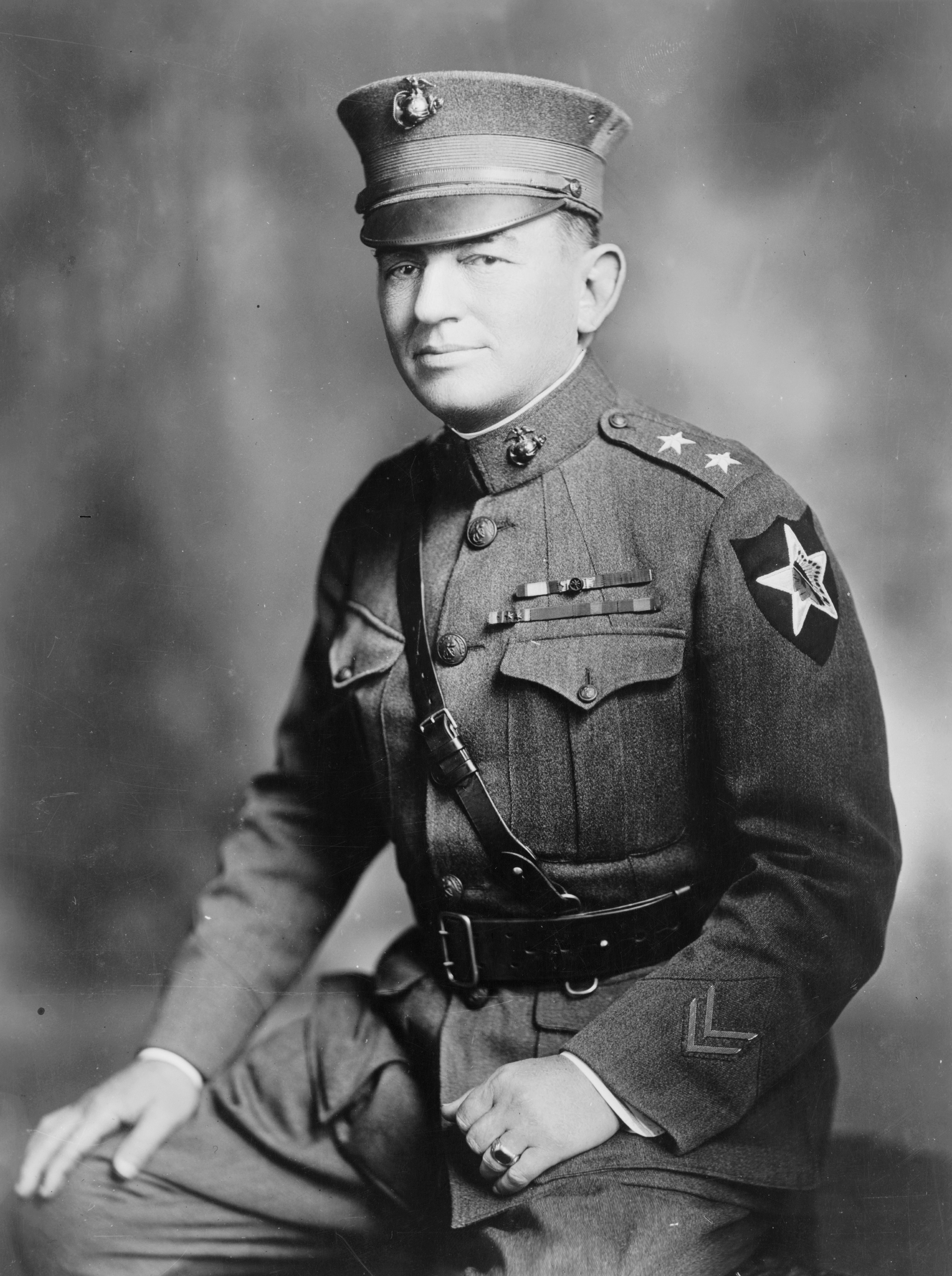 Maj. Gen. John A. LeJeune, three-quarter length portrait, seated, facing left, in uniform